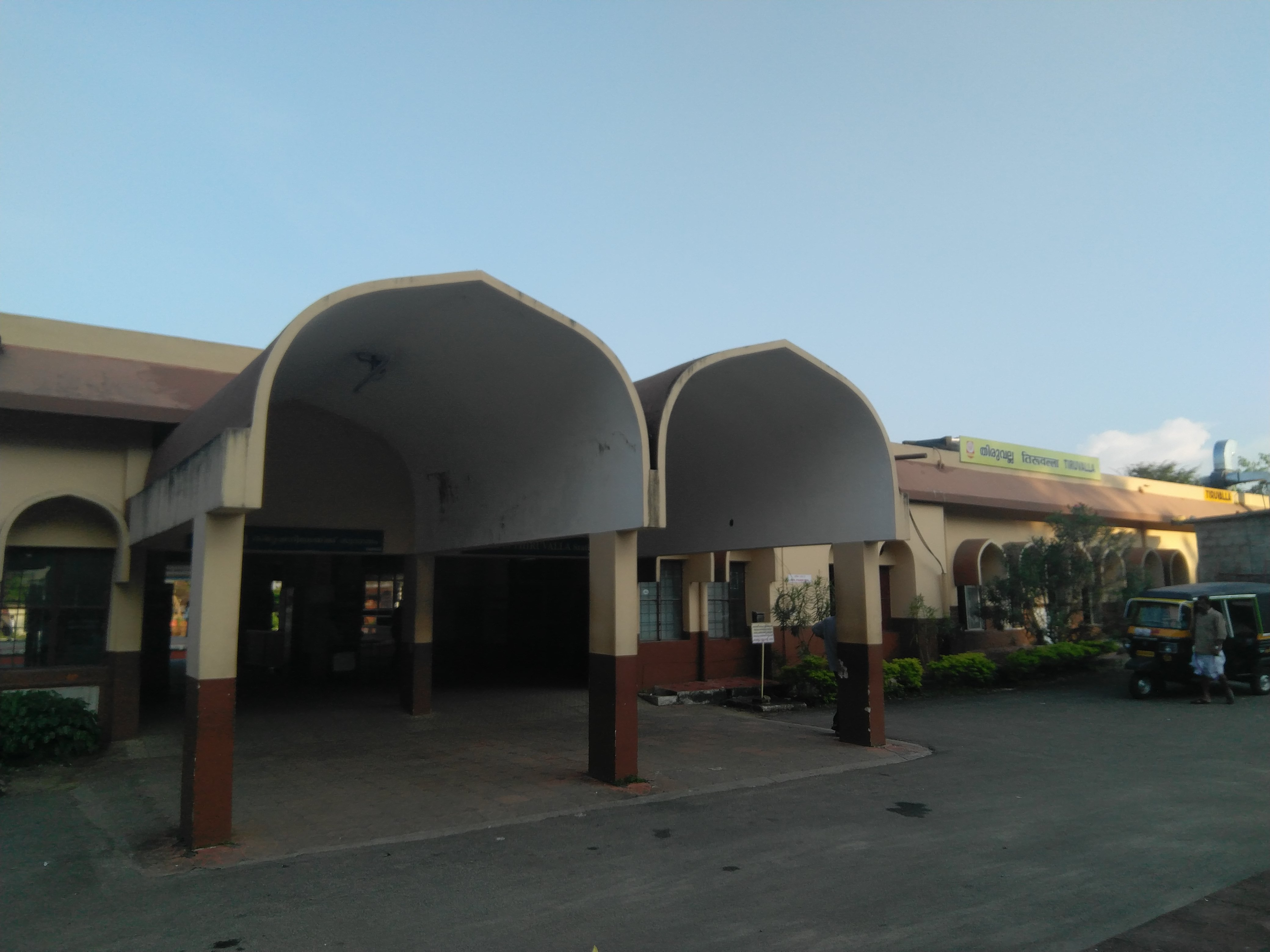 Tiruvalla Railway Station Main Entrance